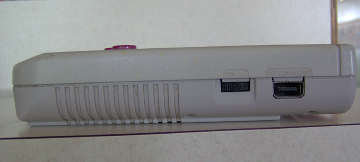 A photo of the Nintendo Game Boy (1989) handheld game console's right side, displaying volume control and its link cable port. This picture was taken by me, I Jethrobot, August 23rd, 2006.